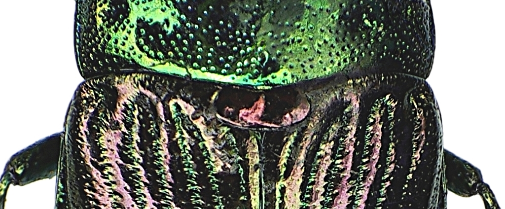 Scutellum of Eurythyrea austriaca